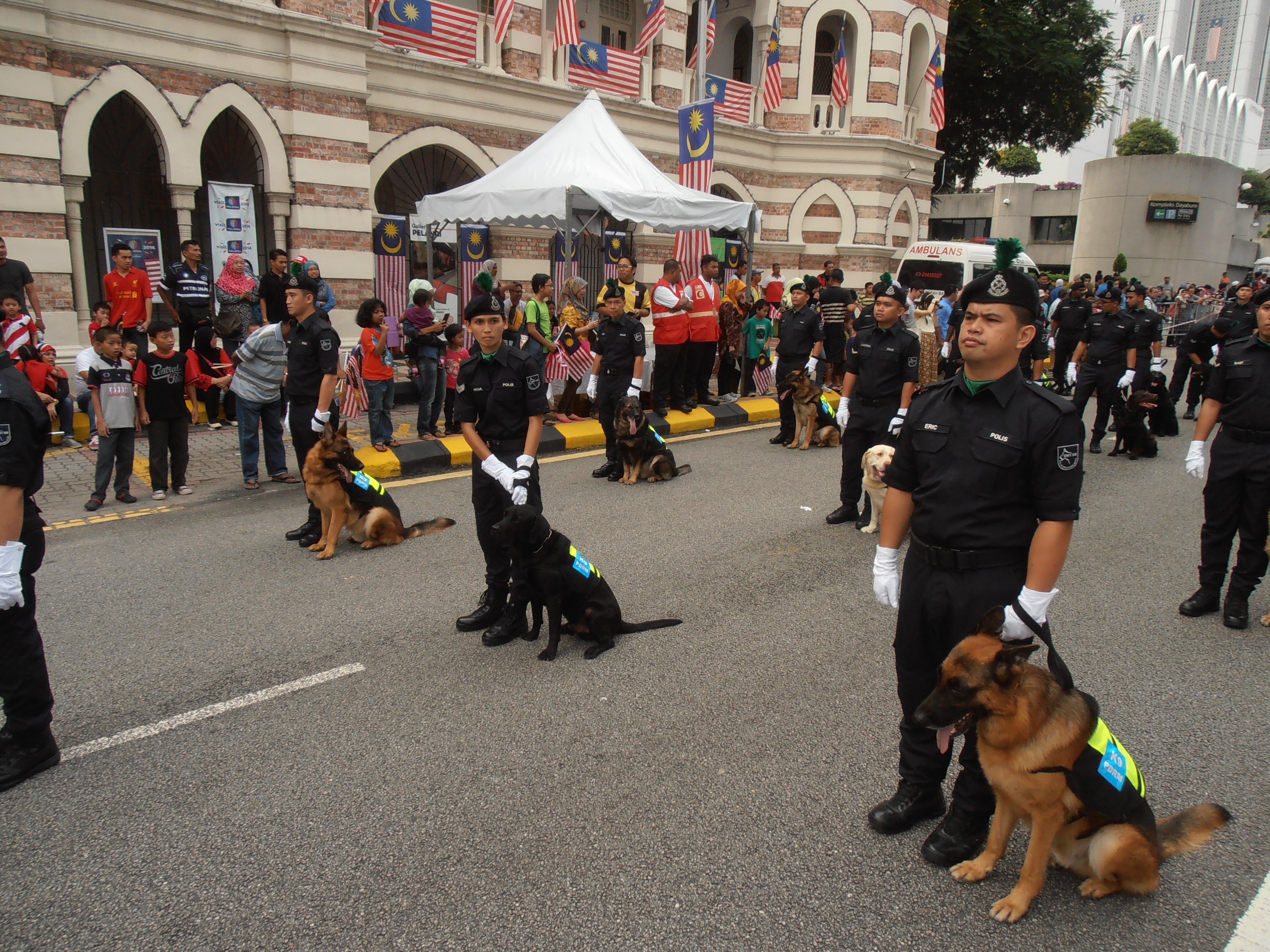 A K-9 unit officers and dogs on standby during 57th National Day Parade, located at Merdeka Square, Kuala Lumpur, Malaysia.